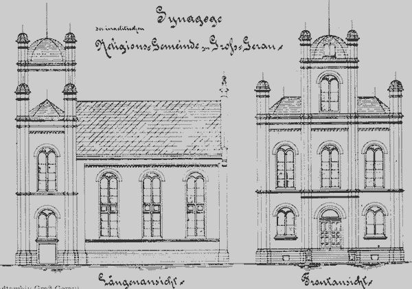 Architect drawing of the synagogue of Gross-Gerau, built in 1892.